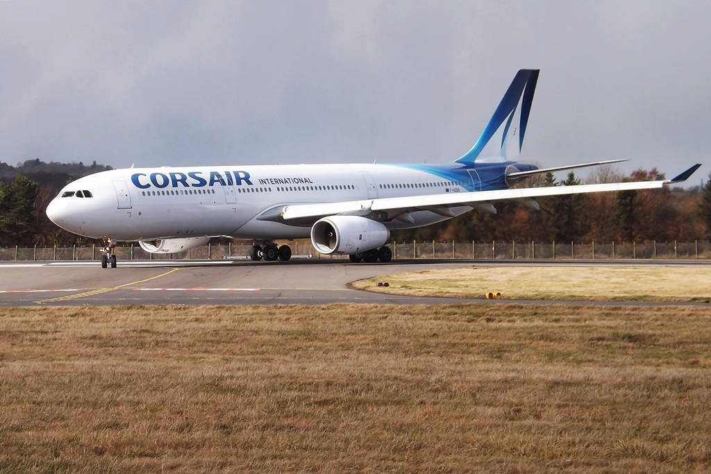 F-HZEN A330 Corsair